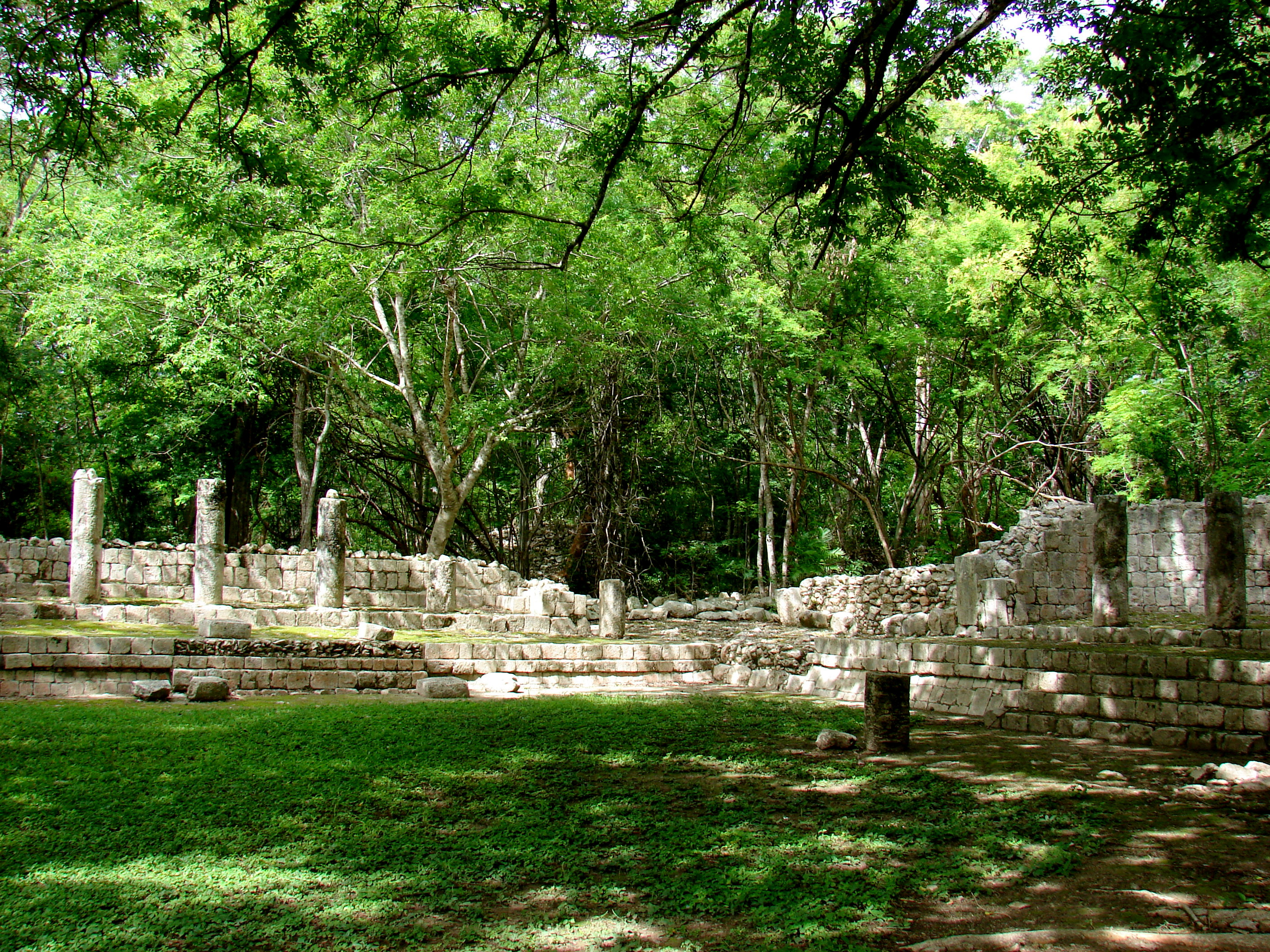 Part of Ruins of Edzná